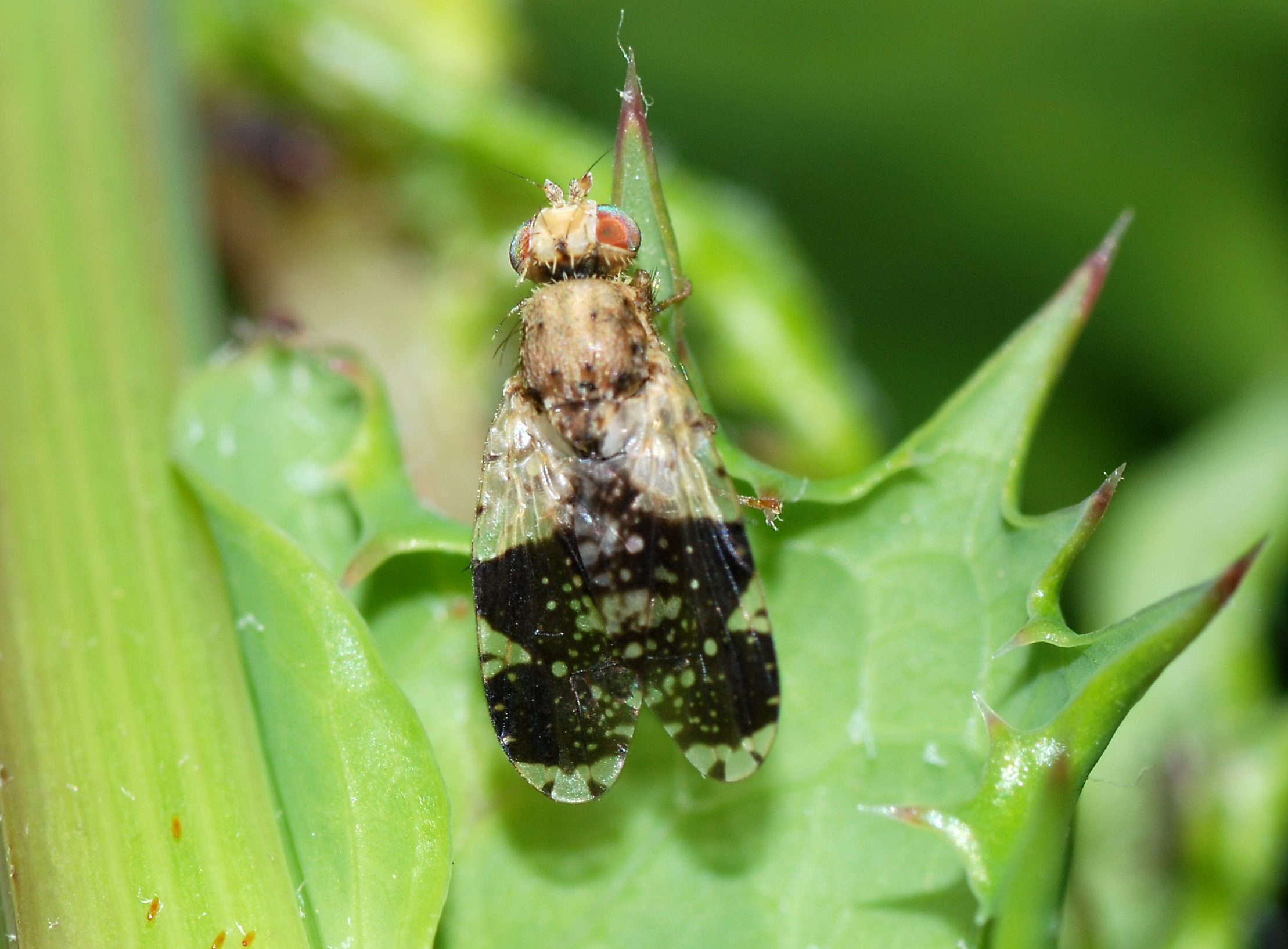 A fruit fly (female Tephritis formosa).